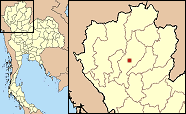 Map showing the location of Lampang town in Thailand